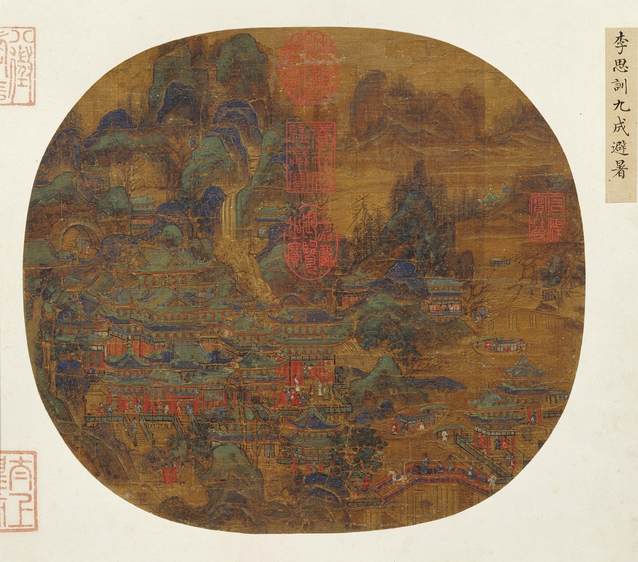 Li Sixun, The Emperor's arrival at the palace Ziucheng, Beijing, Palace Museum